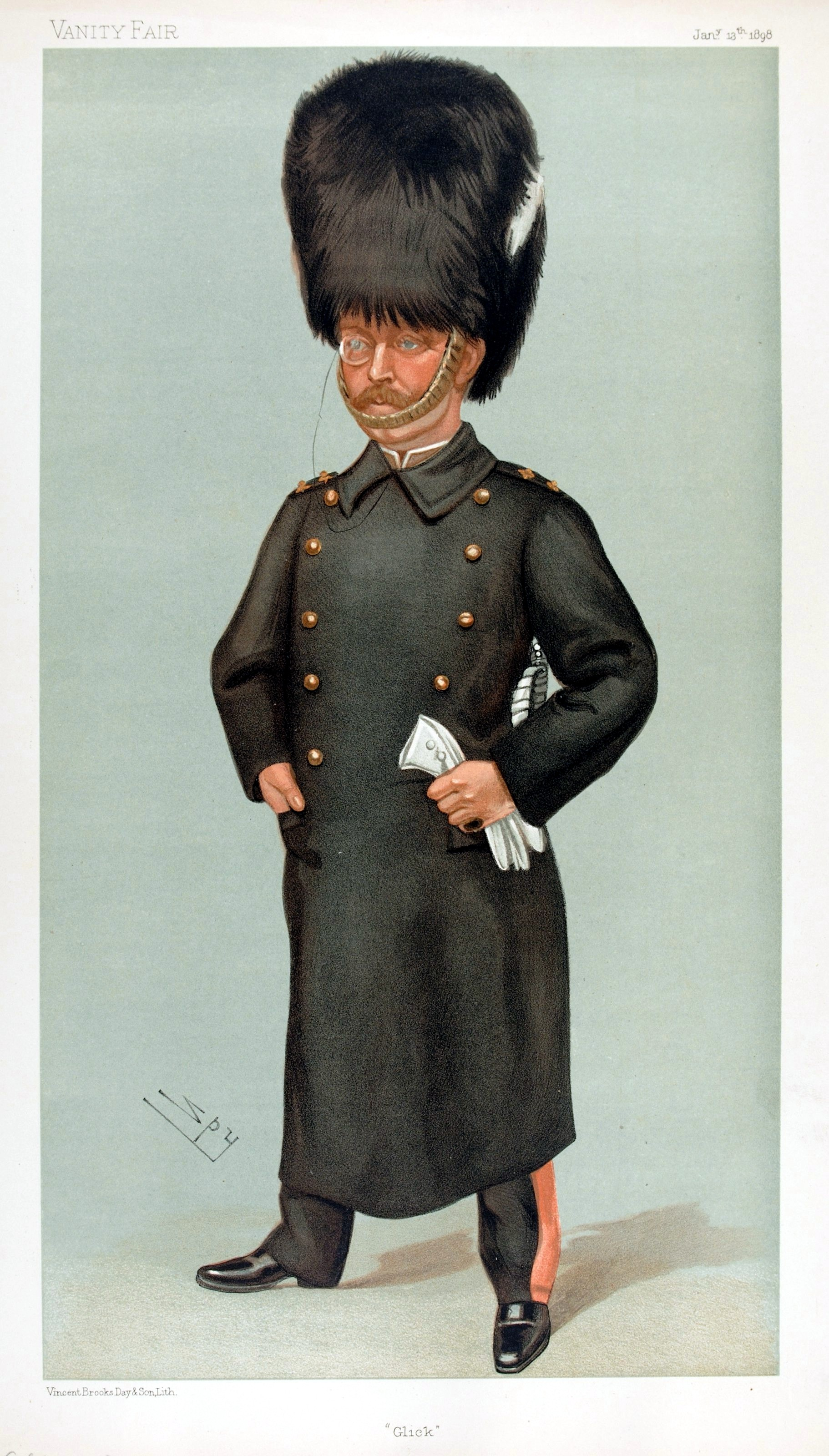 Men of the Day No. 701: Caricature of Count Albert Edward Wilfred Gleichen. Caption read "Glick".